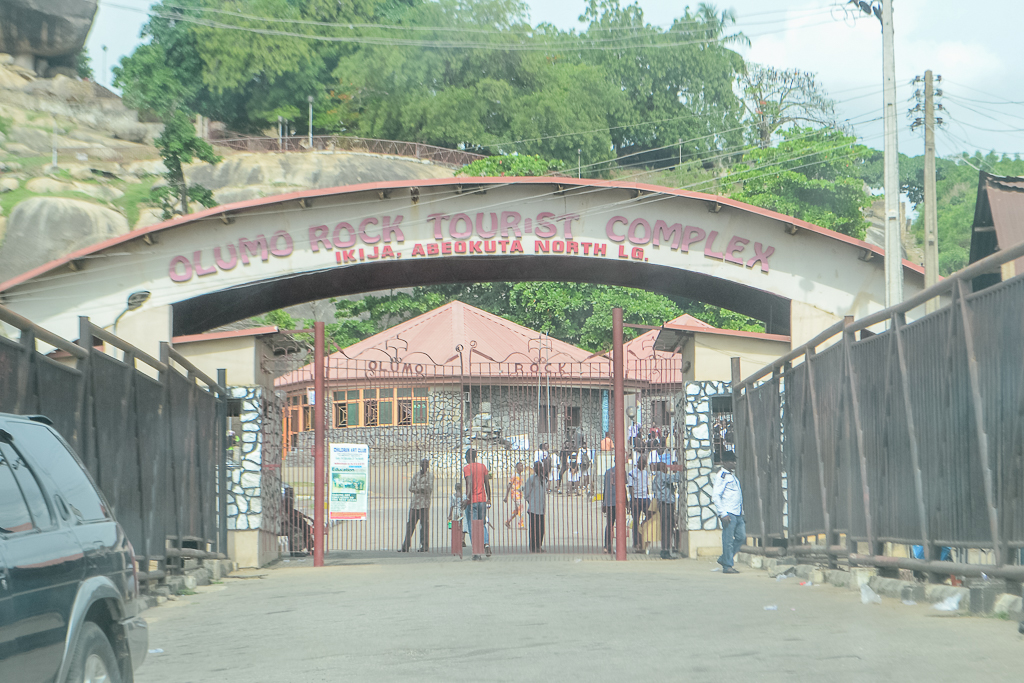 Olumo Rock Main entrance